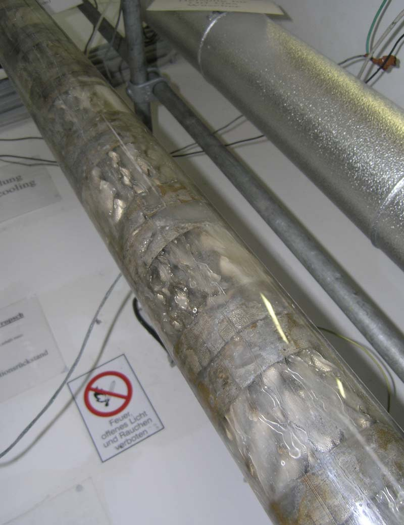 Fischer-Tropsch reaction and cooling columns at Güssing, Austria